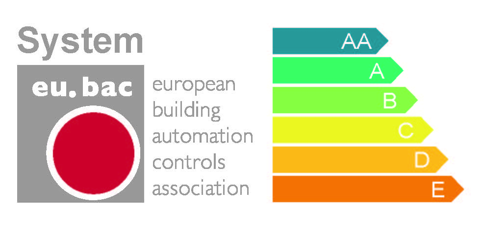 eu.bac Building Automation System Label after revision 2014